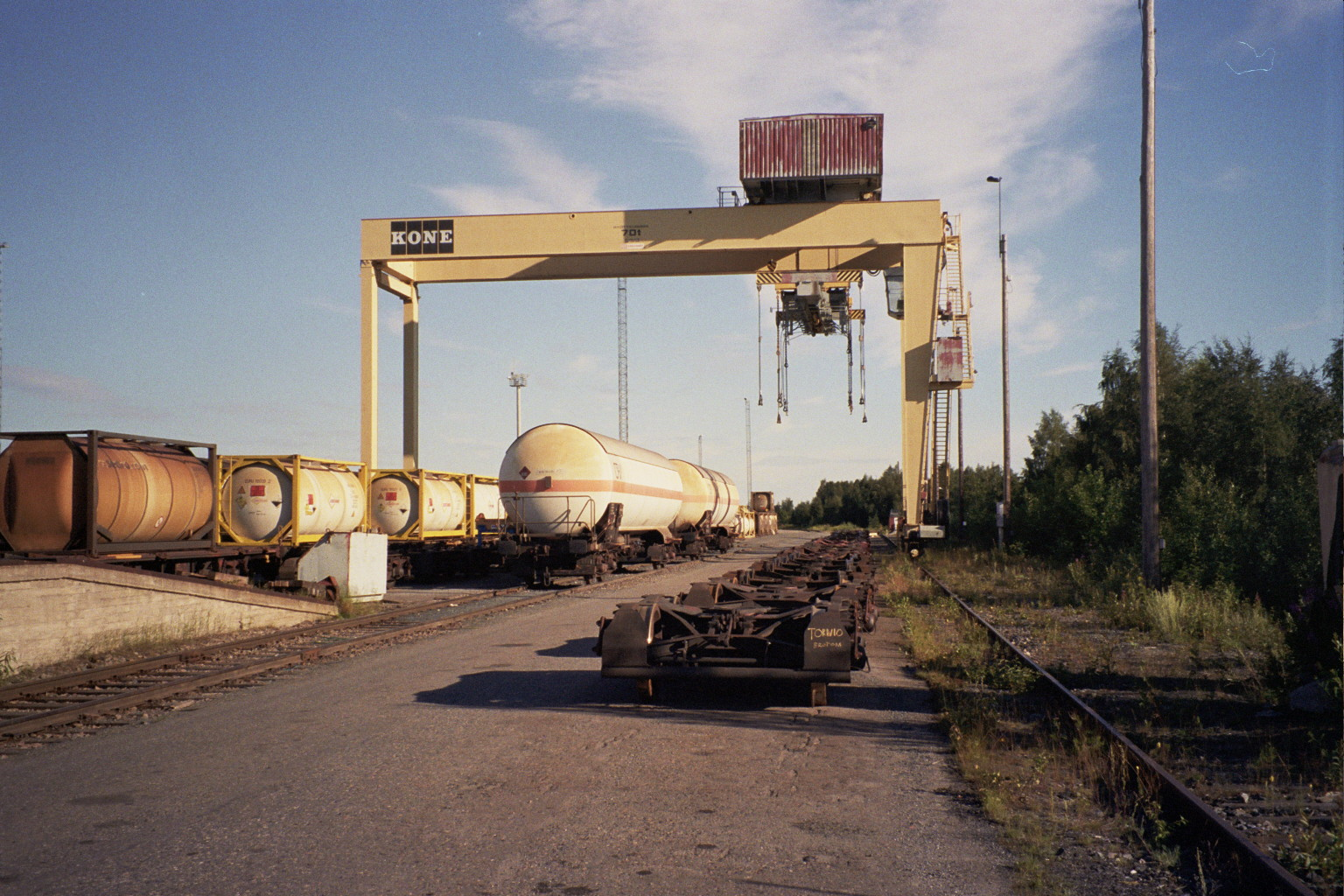 A crane in the VR freight yard in Tornio, Finland.